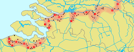 Own work, defence line of the Netherlands during the 16th and 17th century.